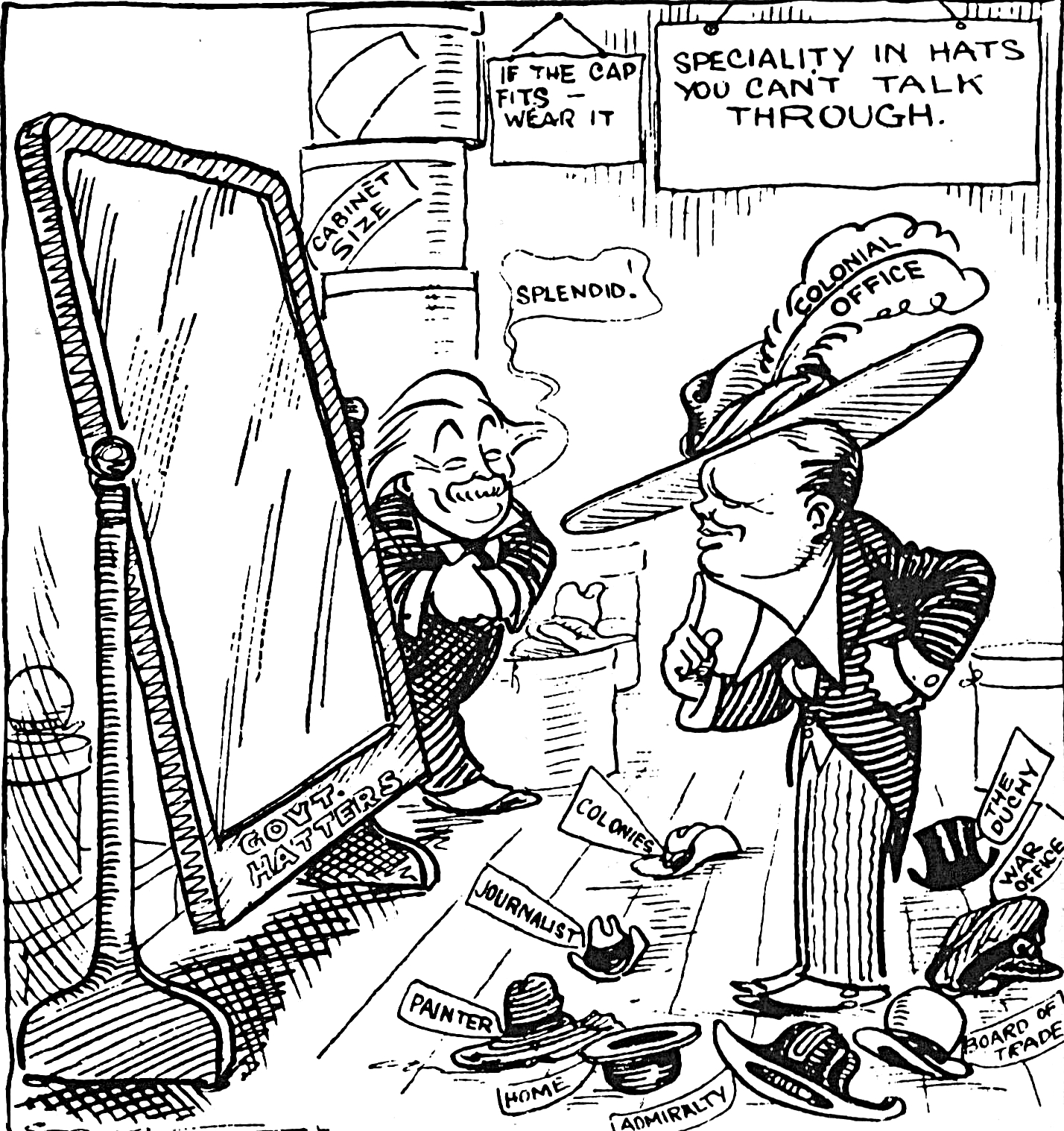 Winston Churchill at the Government Hatter's. Caricature alluding to the "wear and tear" of political offices by Winston Churchill since 1905. The hats scattered on the ground represent the ministries that Churchill had supervised over the intervening years. Acting as hatter the hatter is then-Prime Minister David Lloyd George who is presenting Churchill to his own reflection in the mirror - wearing his newest acquisition (the Colonial Office).